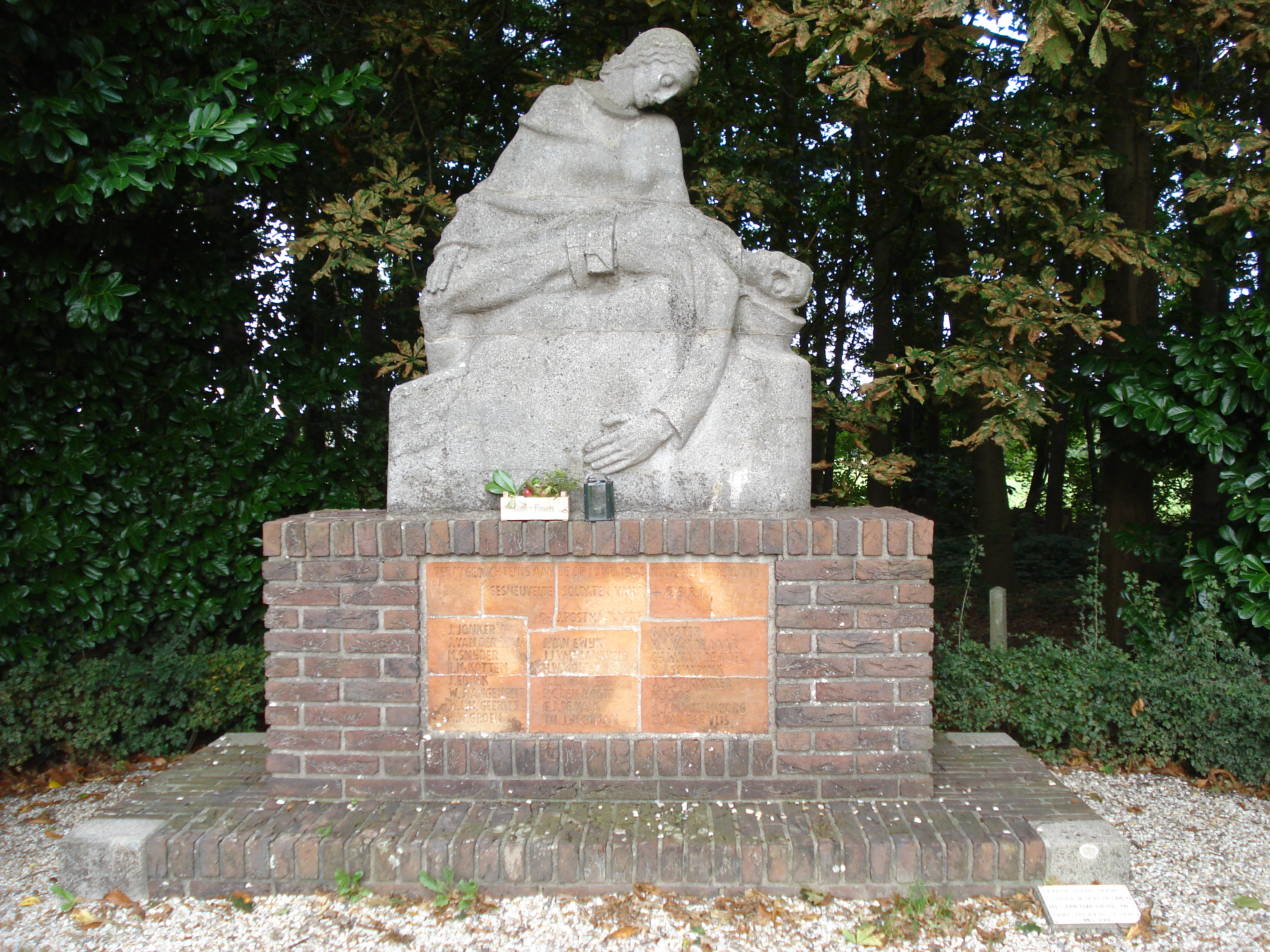 Heumen (Gld, NL), War memorial.